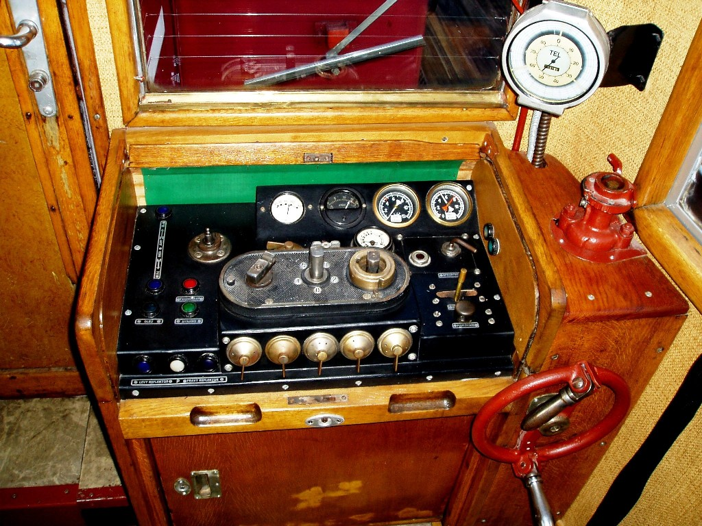 Cockpit of M131.1